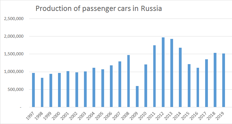 Passenger car production statistics - Russia 1997 - 2015 (OICA) Data source: OICA